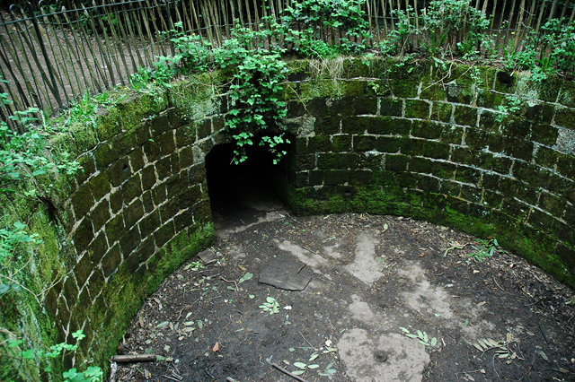 The 'Bear Pit' at Eastham Woodland & Country Park as it stands in 2006. Once used to hold bears as part of the zoo at Eastham in the Victorian period. Photo taken by Matt Cox.